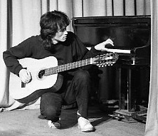 Viktor Tsoi tuning his guitar in 1986 during a acoustic-style concert in Leningrad.